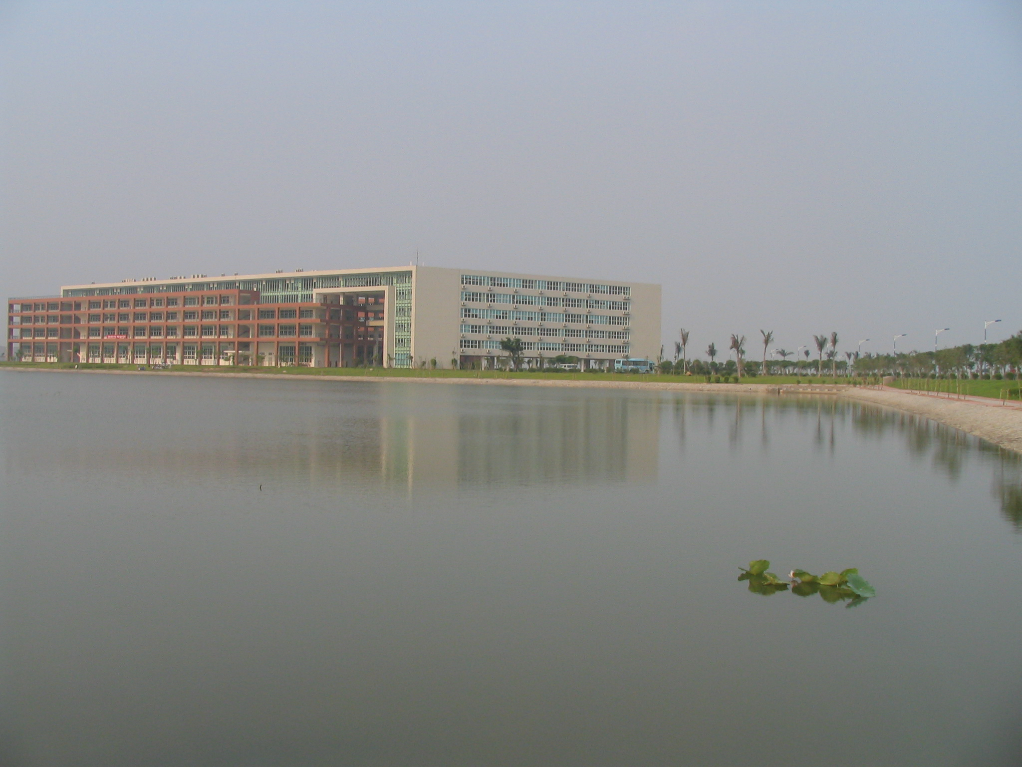 Zhuhai Campus of Jilin University, taken in June 2004.